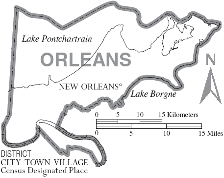 Map of Orleans Parish, Louisiana, United States with municipal boundaries